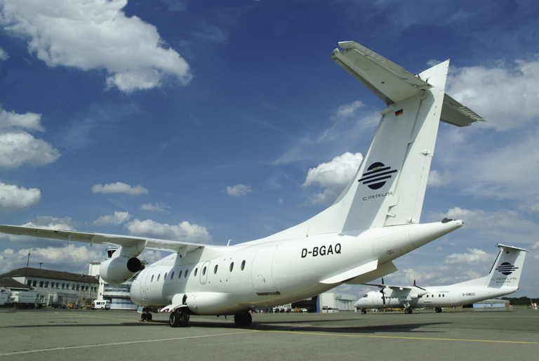 Dornier Do 328 Jet (D-BGAQ) of Cirrus Airlines and in the background a de Havilland Canada Dash 8-314 (D-BMUC) of the same airline.